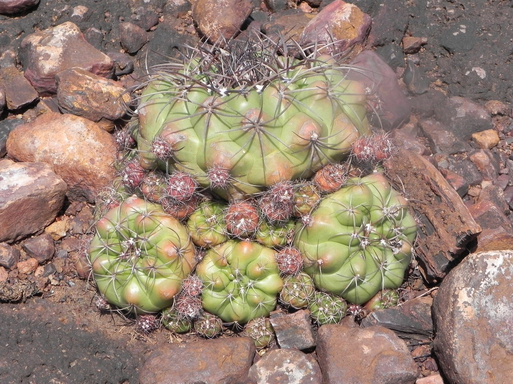 Near Corumba, MS, Brasil